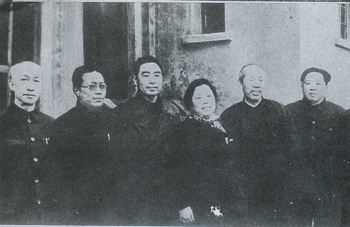 CCP group in 1946